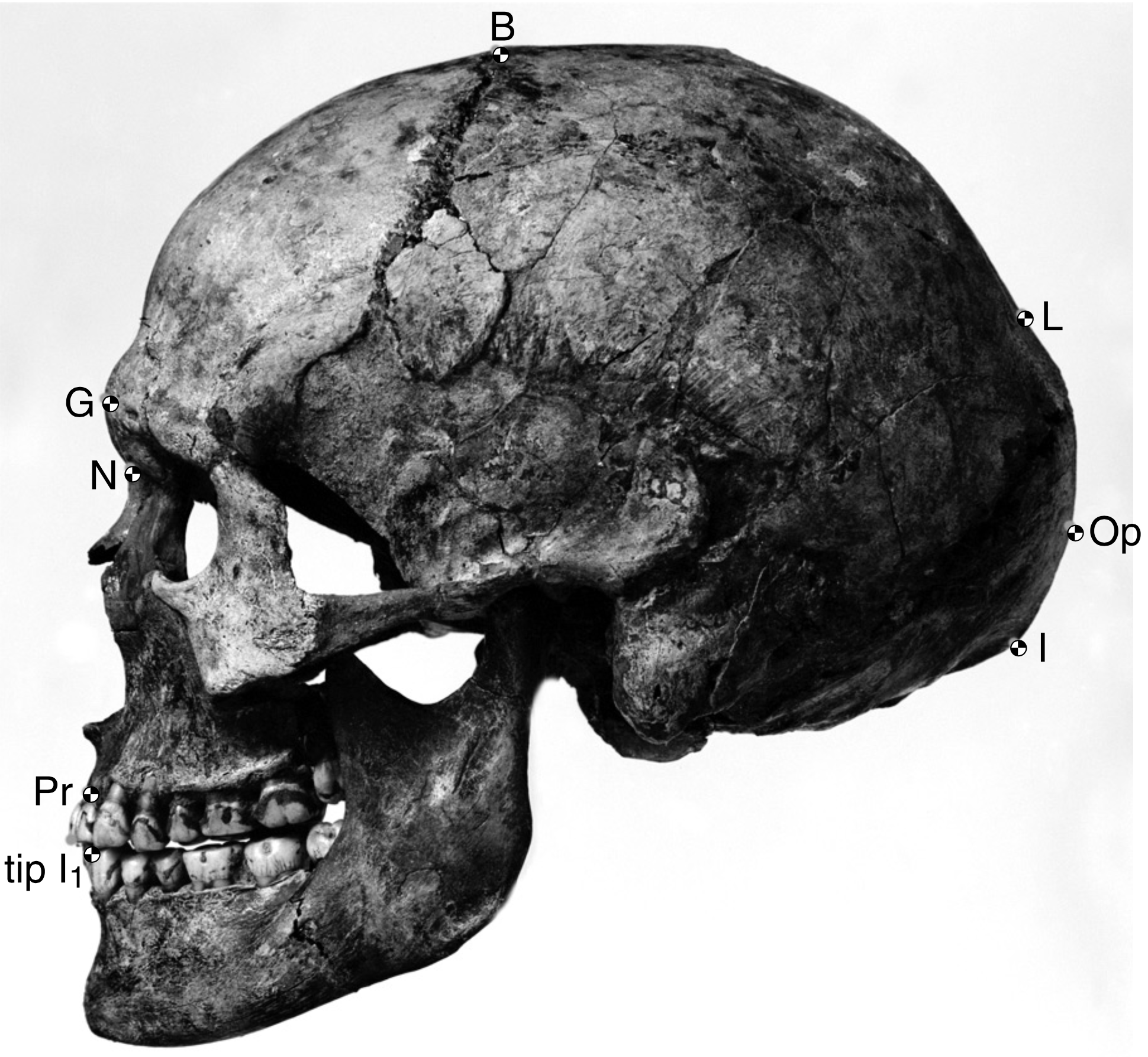 The Předmostí 9 skull, destroyed by retreating Germans in 1945.